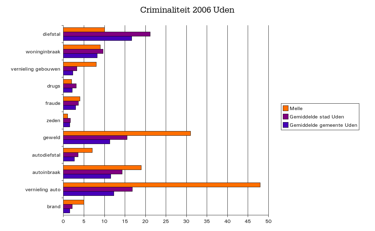 Criminaliteitcijfers in Uden Melle (2006), Noord-Brabant, The Netherlands